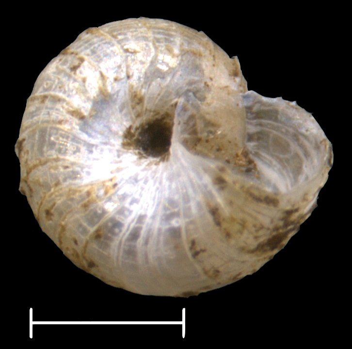 Photo of an umbilical view of a shell of holotype of Maizaniella sapoensis (RMNH 113993, collection of the National Museum of Natural History, formerly Rijksmuseum van Natuurlijke Historie, Leiden.). Scale bar is 1 mm.